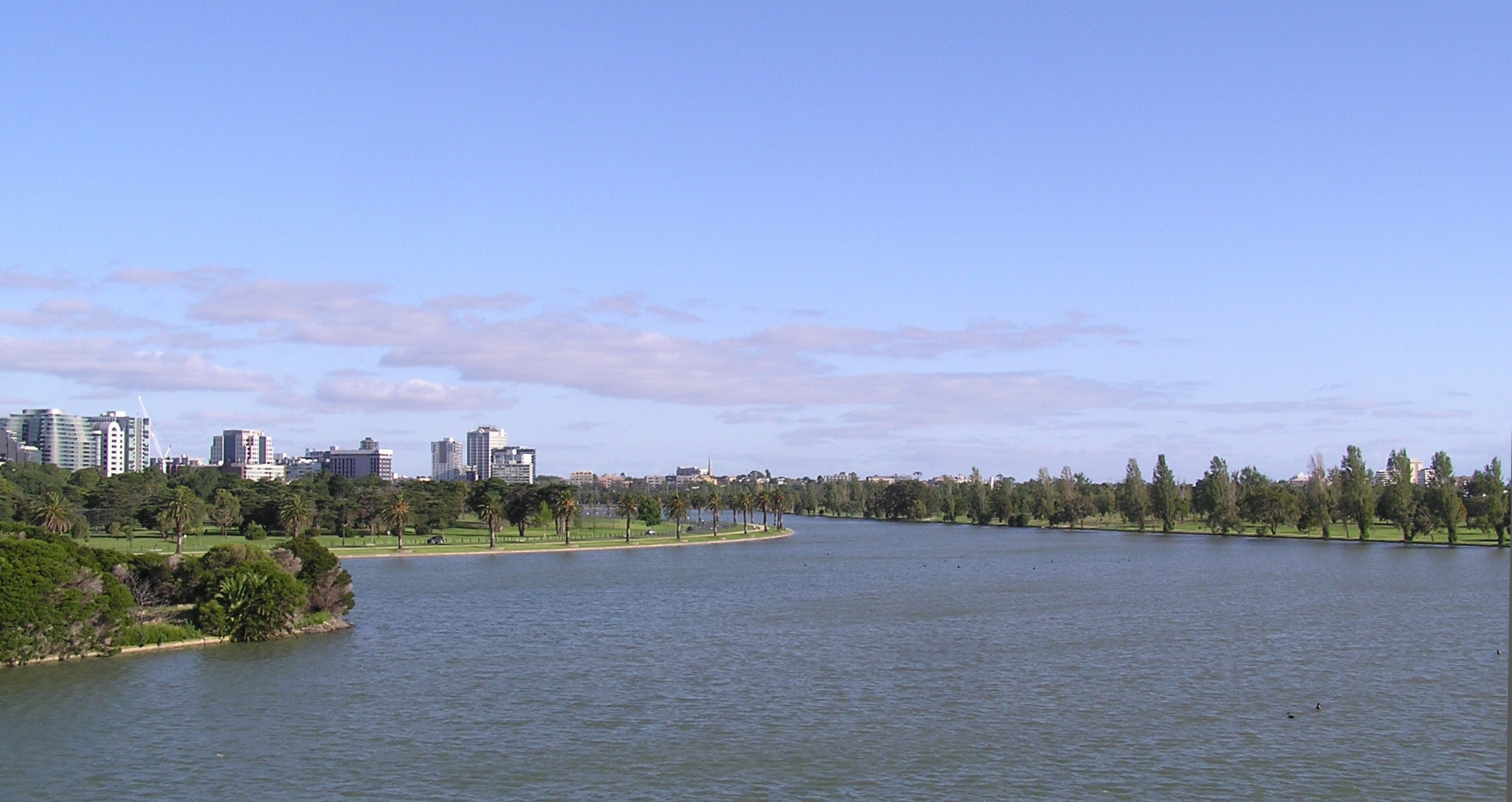 Albert Park & Australian Grand Prix Circuit